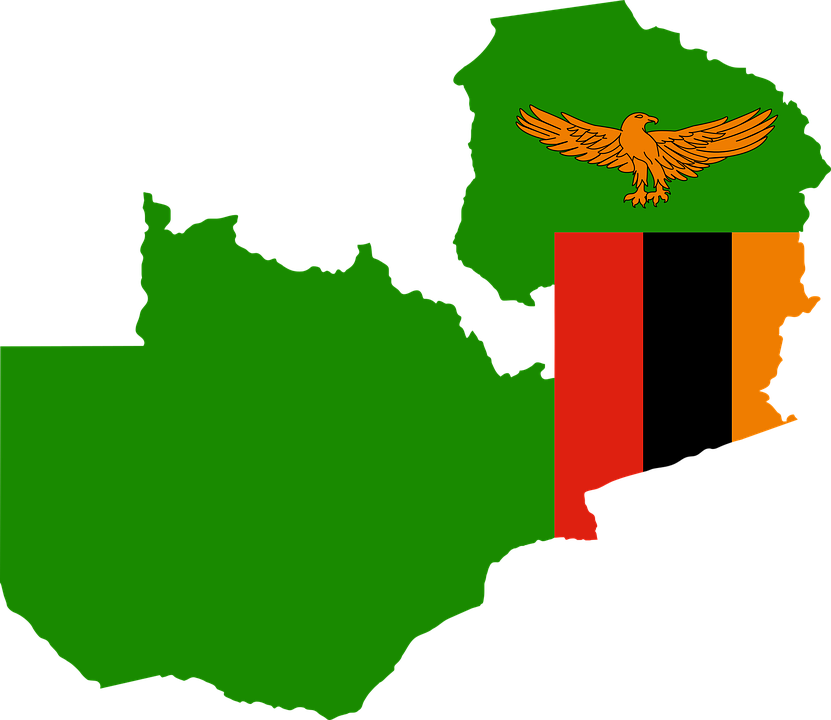 Zambia and its National Flag